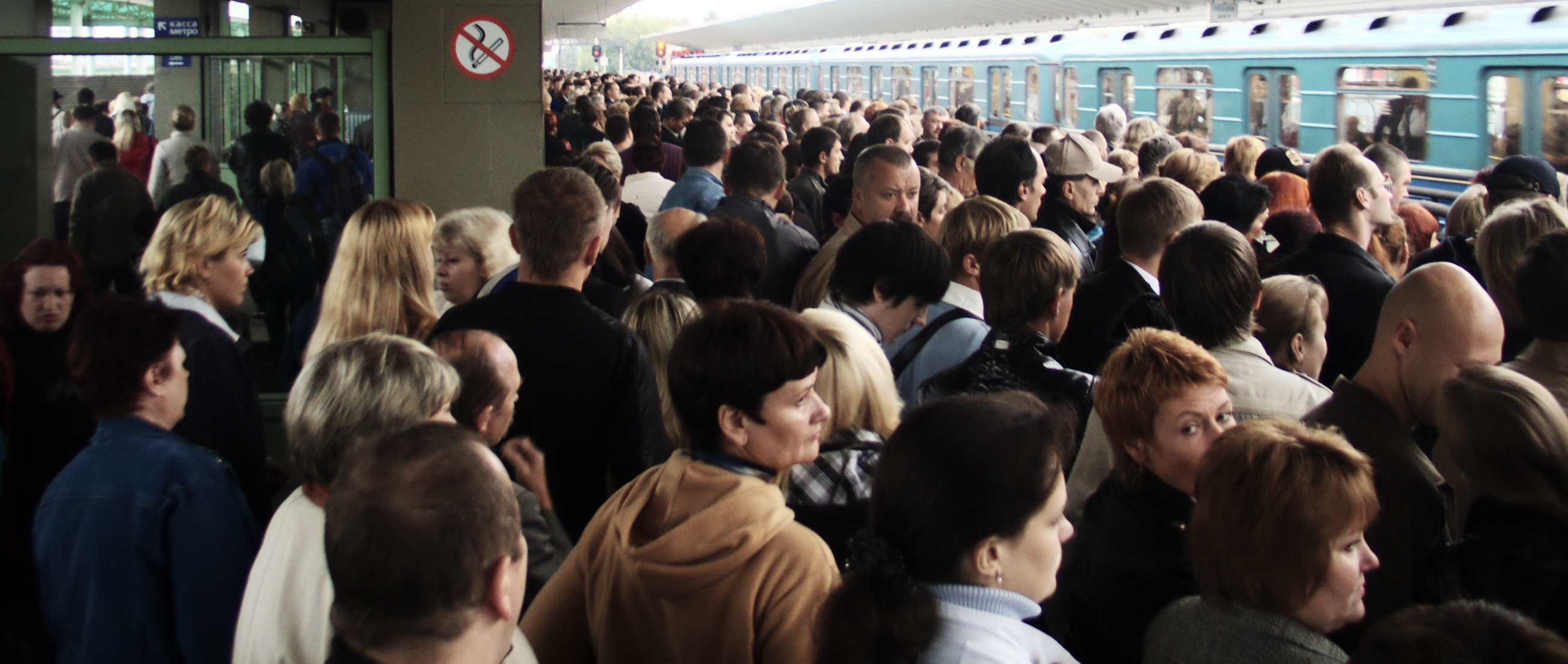 Rush hour at Vyhino, the most overloaded Moscow Metro station. The visible train is on another side of the platform.